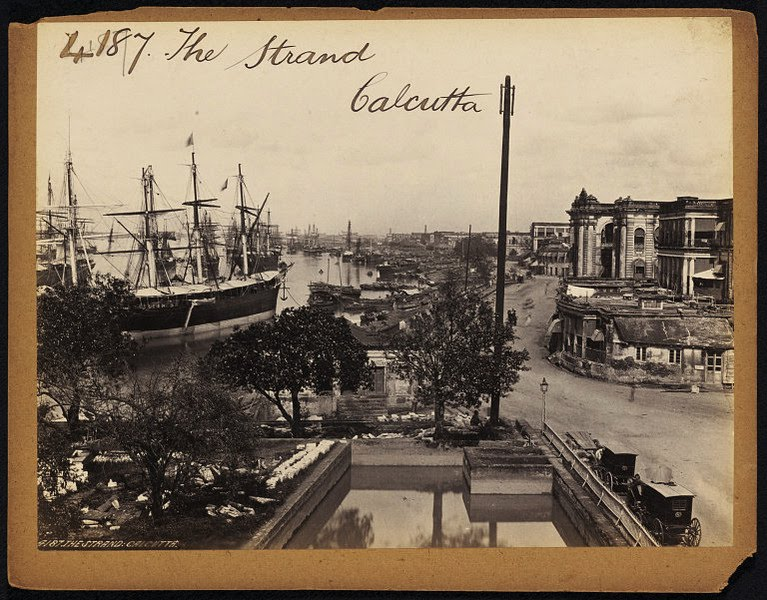 The Strand, Calcutta